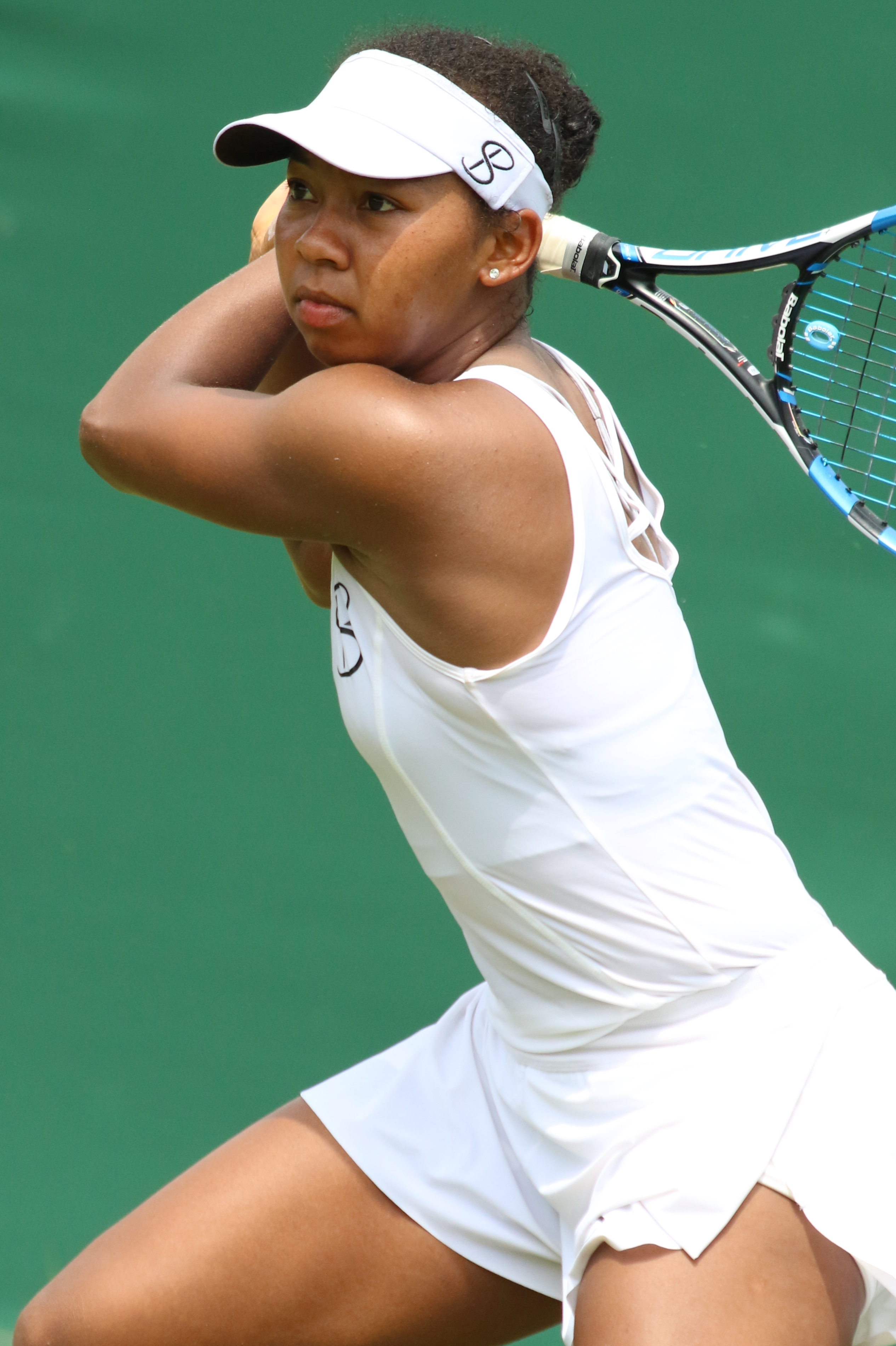 2019 Wimbledon Qualifying Tournament.